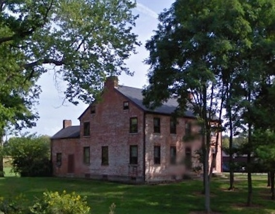 Greentree Tavern & Inn, located near the intersection of SR 741 and Greentree Road in Turtle Creek Township, Warren County, Ohio (between Otterbein and Red Lion) – According to the website of the Warren County Historical Society, it was built in about 1810. Photo taken from GPS coordinates 39.4629, -84.2676 – facing southeast.